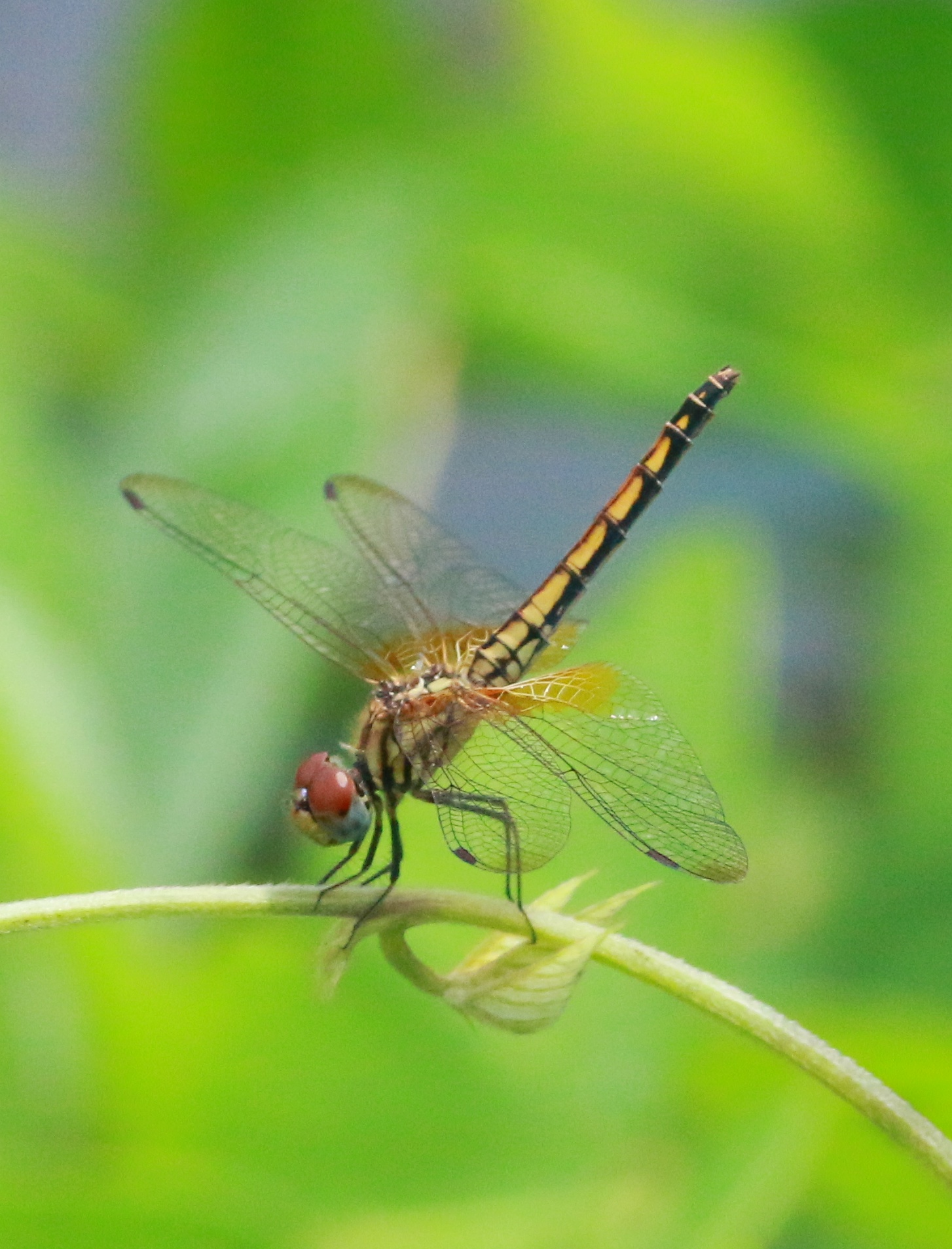 Trithemis aurora,Crimson marsh glider, female